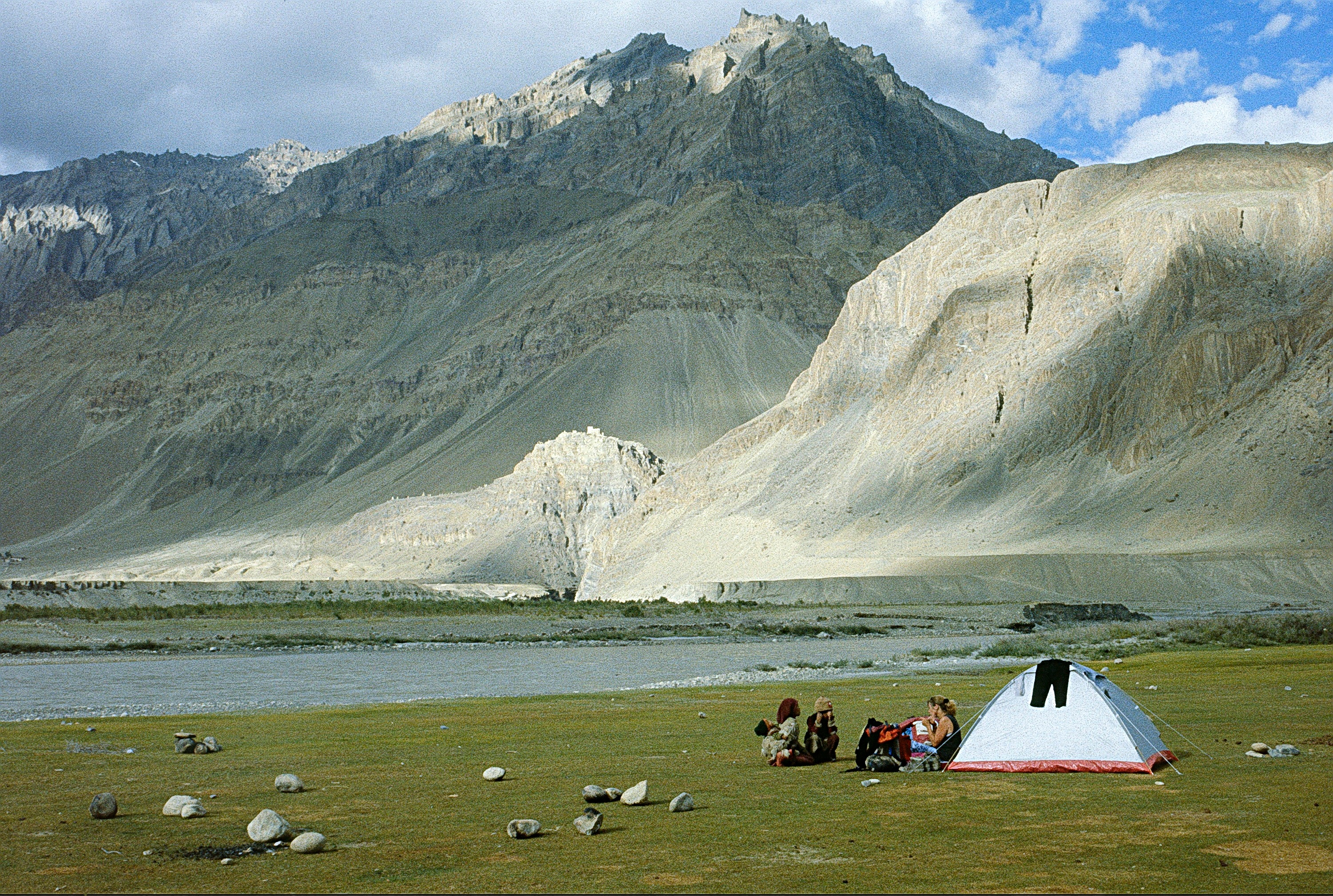 Wilderness camping on the bank of Zanskar river.